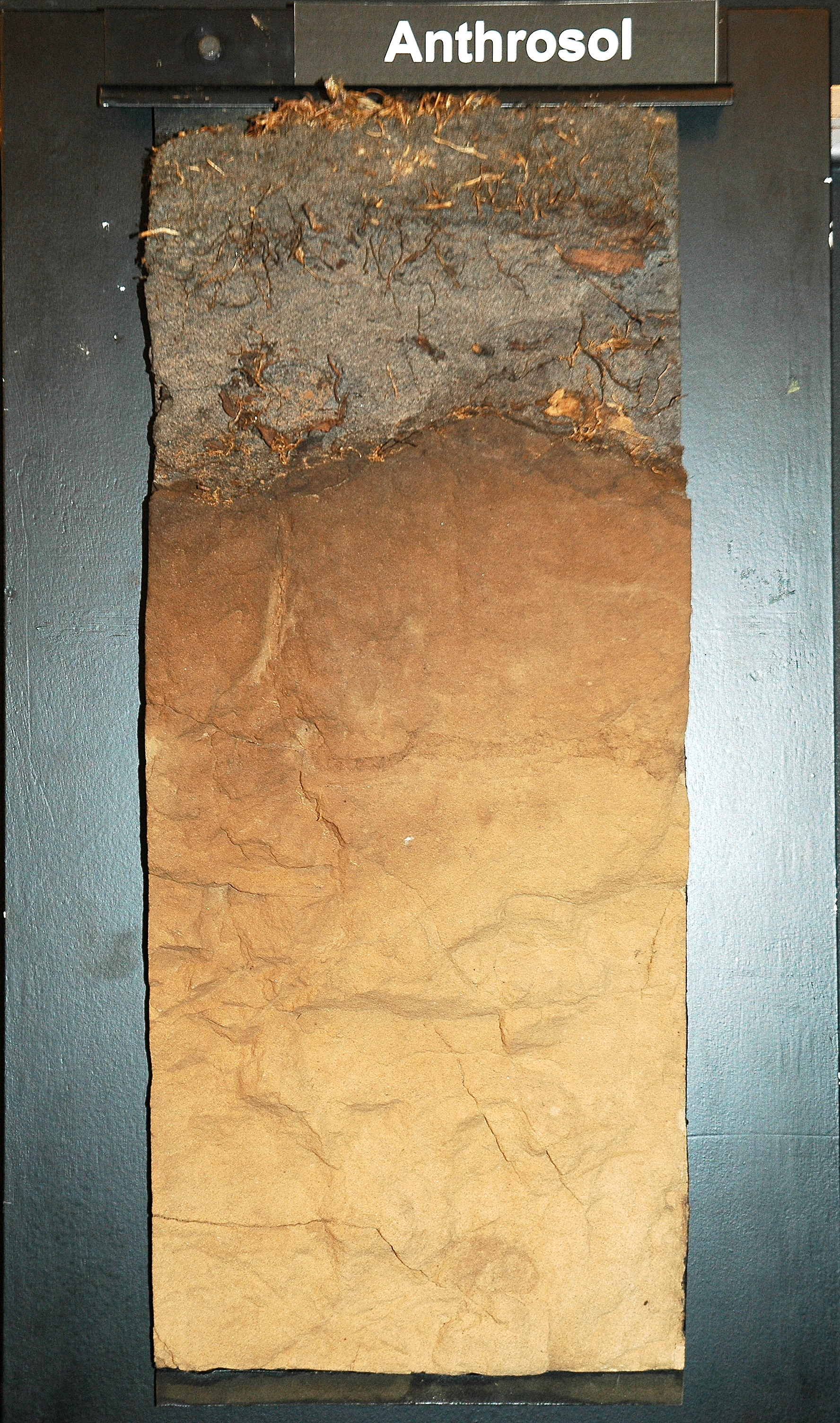 Soil profile of a Anthrosol